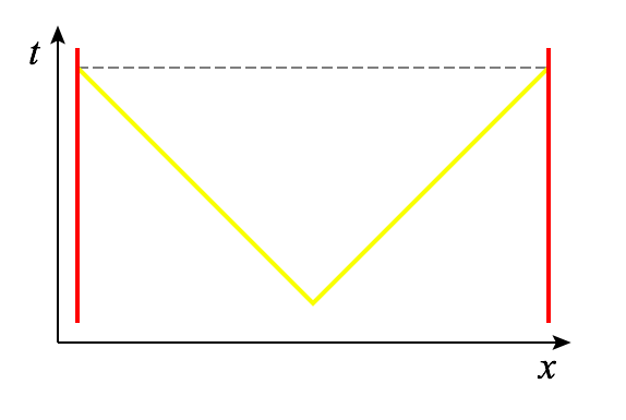 This is a spacetime diagram of the train-and-platform thought experiment. The red lines represent the front and back ends of a train, while the yellow lines represent the paths of two light rays.